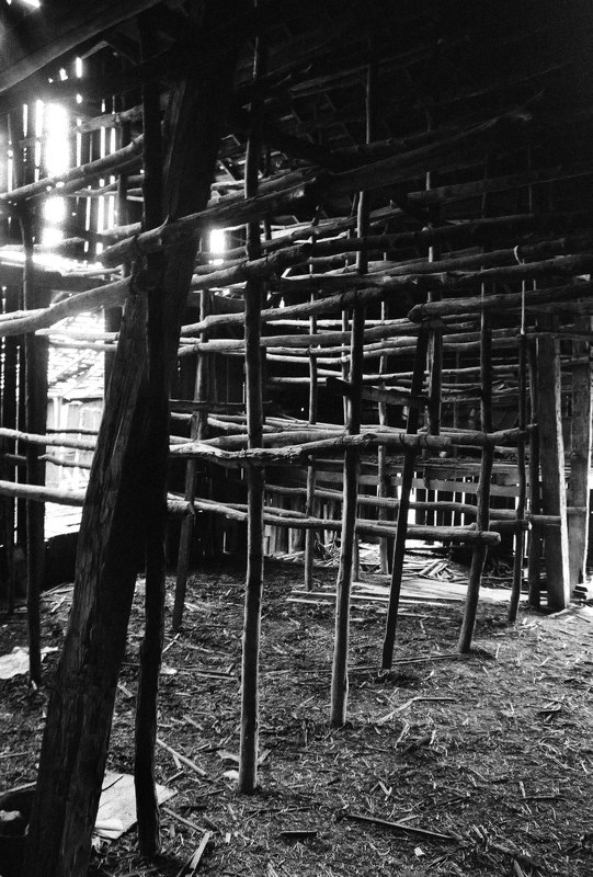 Interior of a tobacco barn in West Virginia.